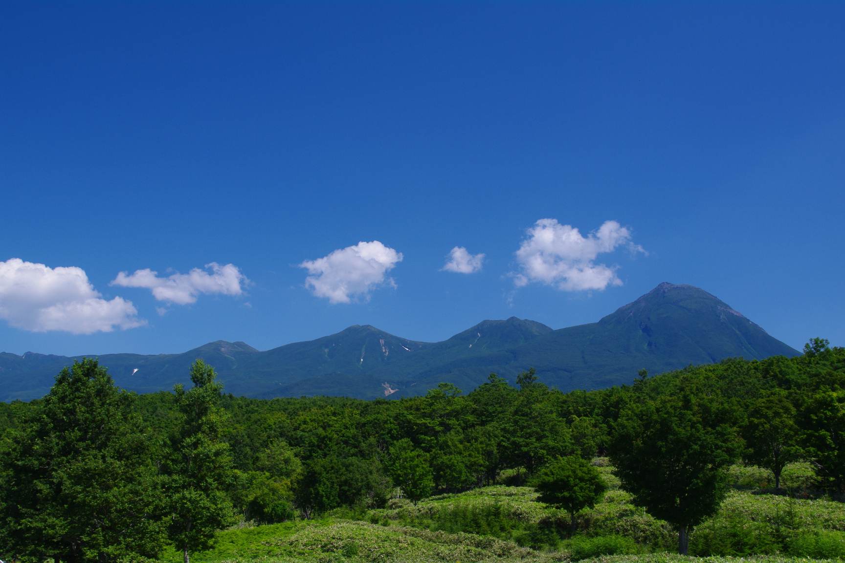 Shiretoko 5 peaks in Shari town, Hokkaido.